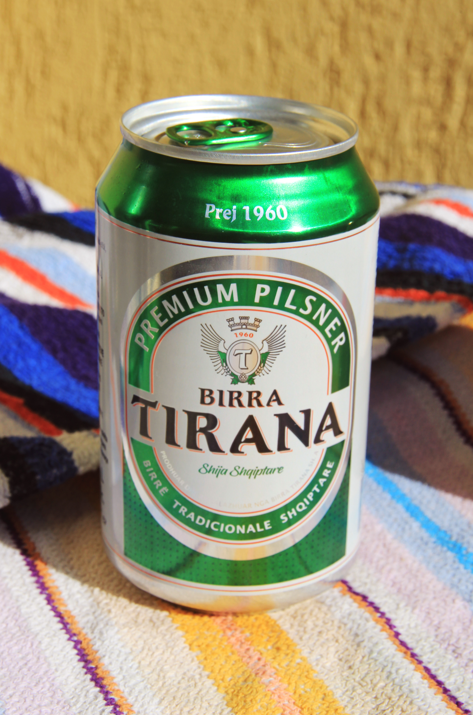 Albanien canned beer Birra Tirana, Albania, September 2018